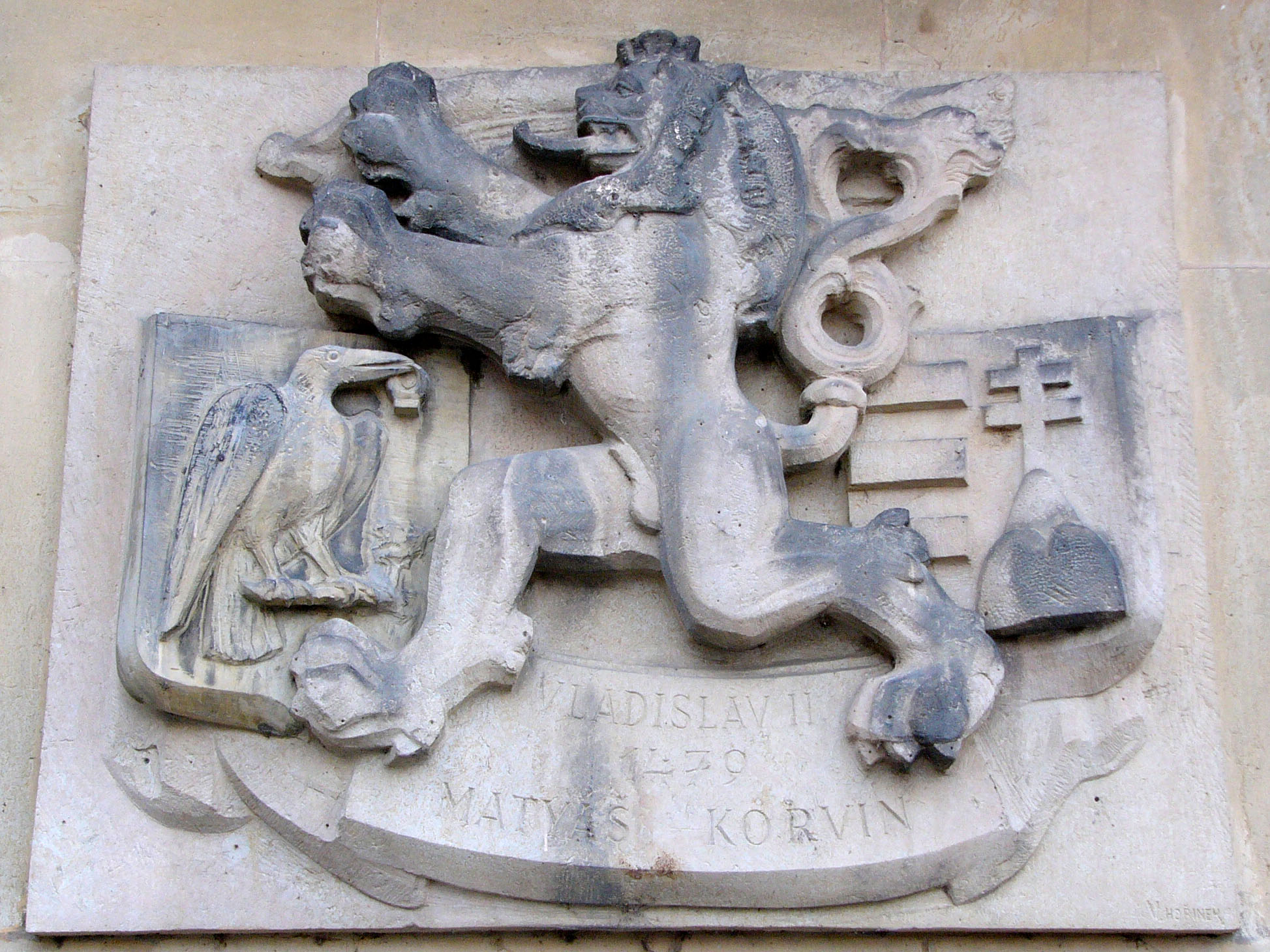 Plaque of Peace of Olomouc in 1479 between Ladislaus Jagiellon and Matthias Corvinus in Olomouc (Czech Republic). Plague was made by Vojtěch Hořínek.